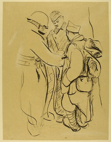 Edmond Boissonnet